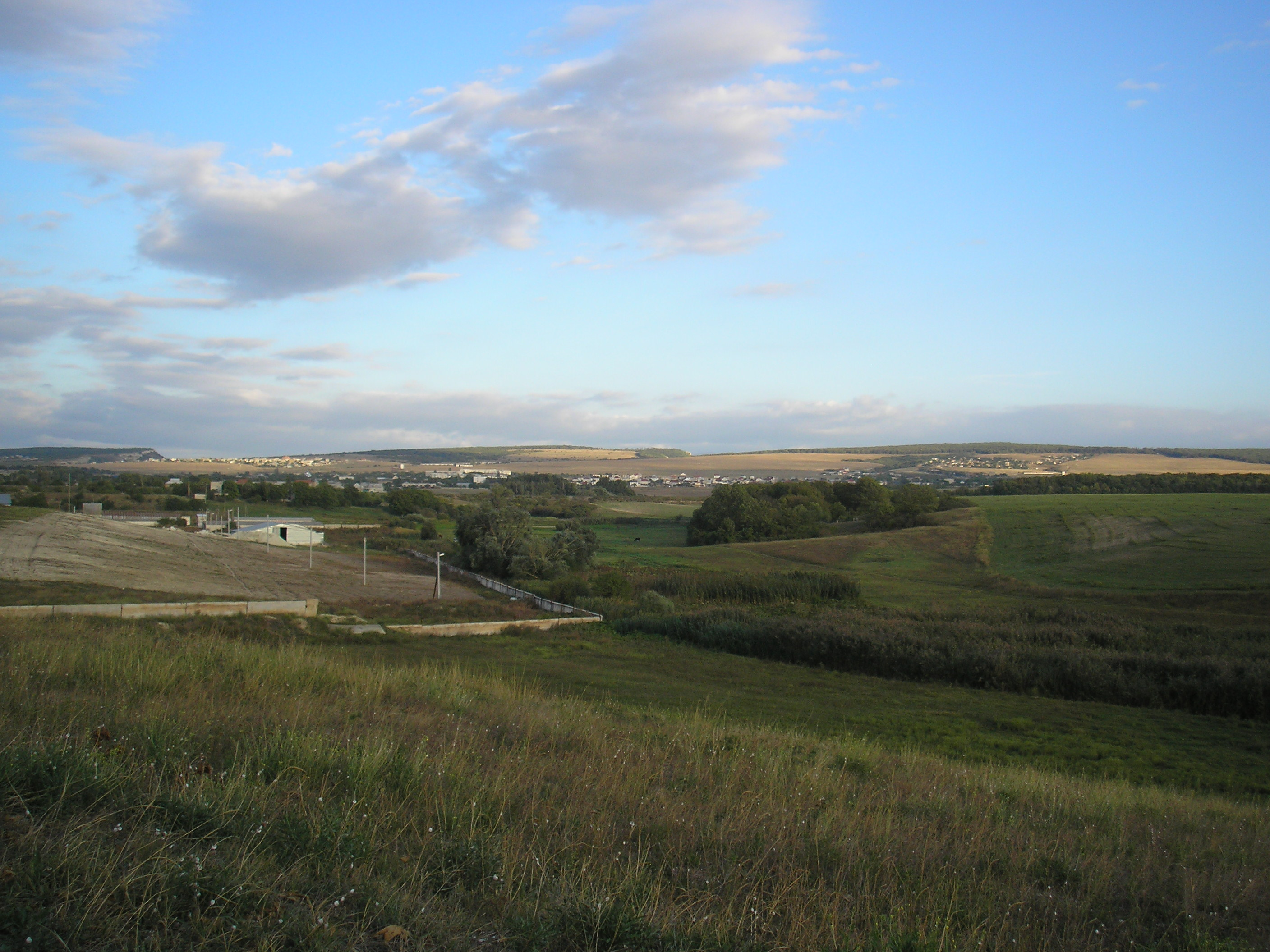 Riverhead of West Bulganak river